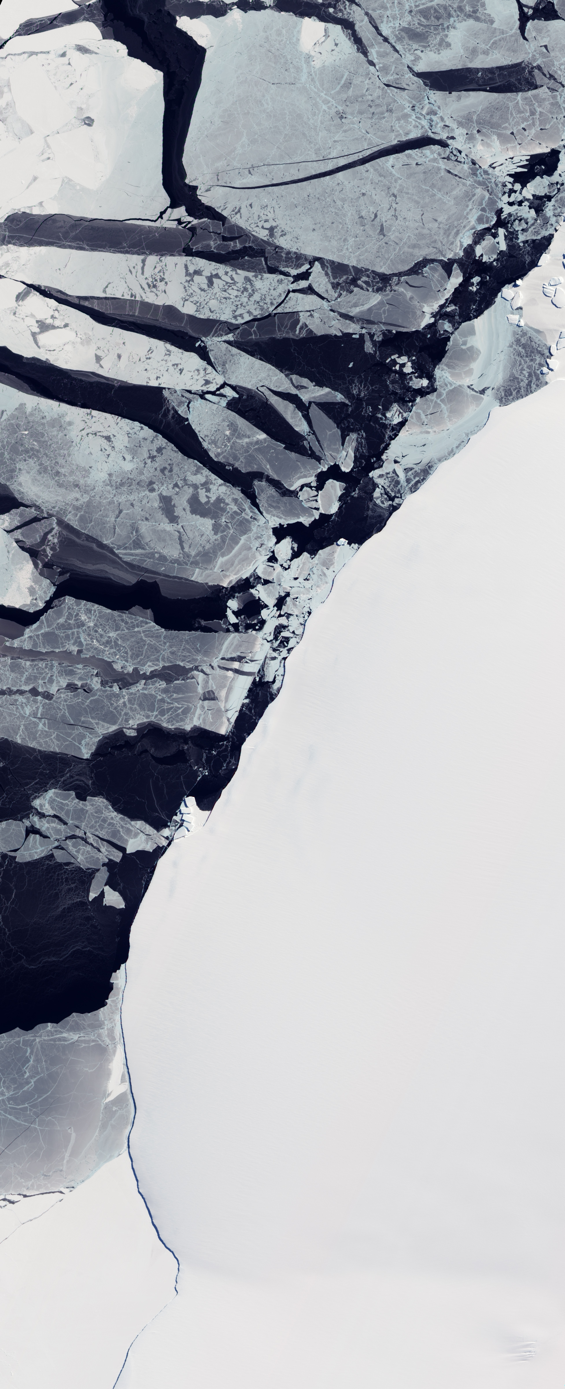 Image of a variety of ice types off the coast of East Antarctica.Brilliant white ice fills the right half of this image. It is fast ice, and derives its name from the fact that it holds fast to the shore. This ice is thick enough to completely hide the underlying seawater, hence its brilliant white colour. Trapped within the fast ice, and stuck along the edge of it, are icebergs. Icebergs form by calving off ice shelves—thick slabs of ice attached to the coast. Ice shelves can range in thickness from tens to hundreds of meters, and the icebergs that calve off of them can tower over nearby sea ice. One iceberg, drenched with meltwater, has toppled and shattered (image upper right). The water-saturated ice leaves a blue tinge. The icebergs along the edge of the fast ice are likely grounded on the shallow sea floor, and their presence may help hold the fast ice in place. Farther out to sea is pack ice that drifts with winds and currents. Much thinner than the fast ice, the translucent pack ice appears in shades of blue-gray. The pack ice includes some newly formed sea ice. As seawater starts to freeze, it forms tiny crystals known as frazil (image center). Although the individual crystals are only millimeters across, enough of them assembled together are visible from space. Constantly moved by ocean currents, frazil often appears in delicate swirls. Frazil crystals can coalesce into thin sheets of ice known as nilas (image top). Sheets of nilas often slide over each other, eventually merging into thicker layers of ice.